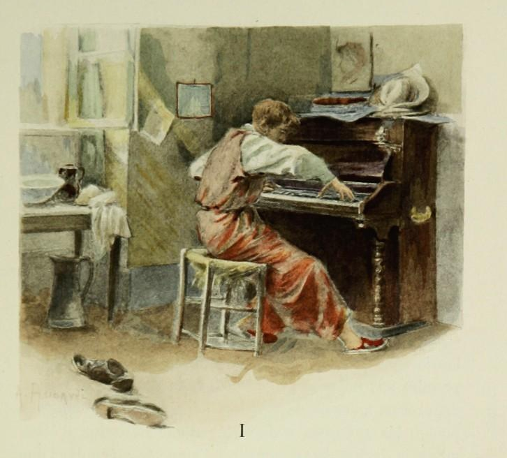 Illustration of Henry Murger's Scènes de la vie de bohème: Paris L. Cartheret éditeur.